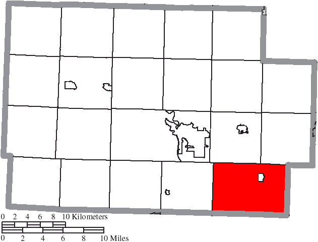 Map of the municipal and township boundaries of Coshocton County, Ohio, United States, as of the 2000 census, with the location of Linton Township highlighted. Township borders are shown only in unincorporated areas in order to differentiate incorporated and unincorporated areas more clearly.